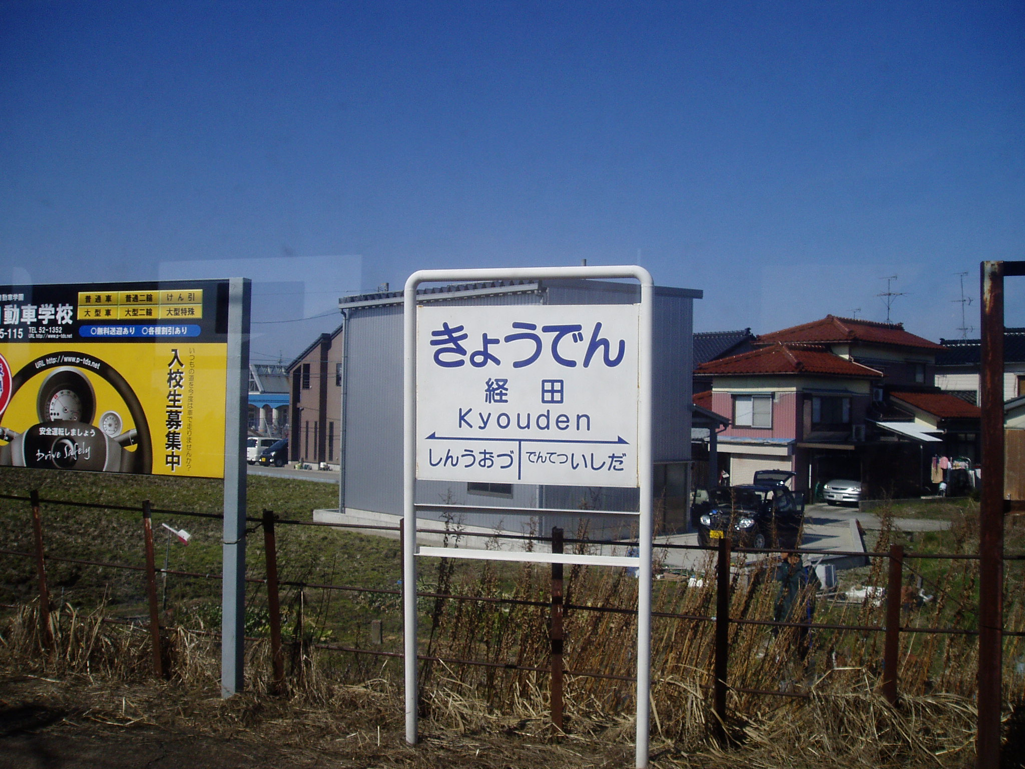 This is Kyoden Station in Toyama Chihou Railway.